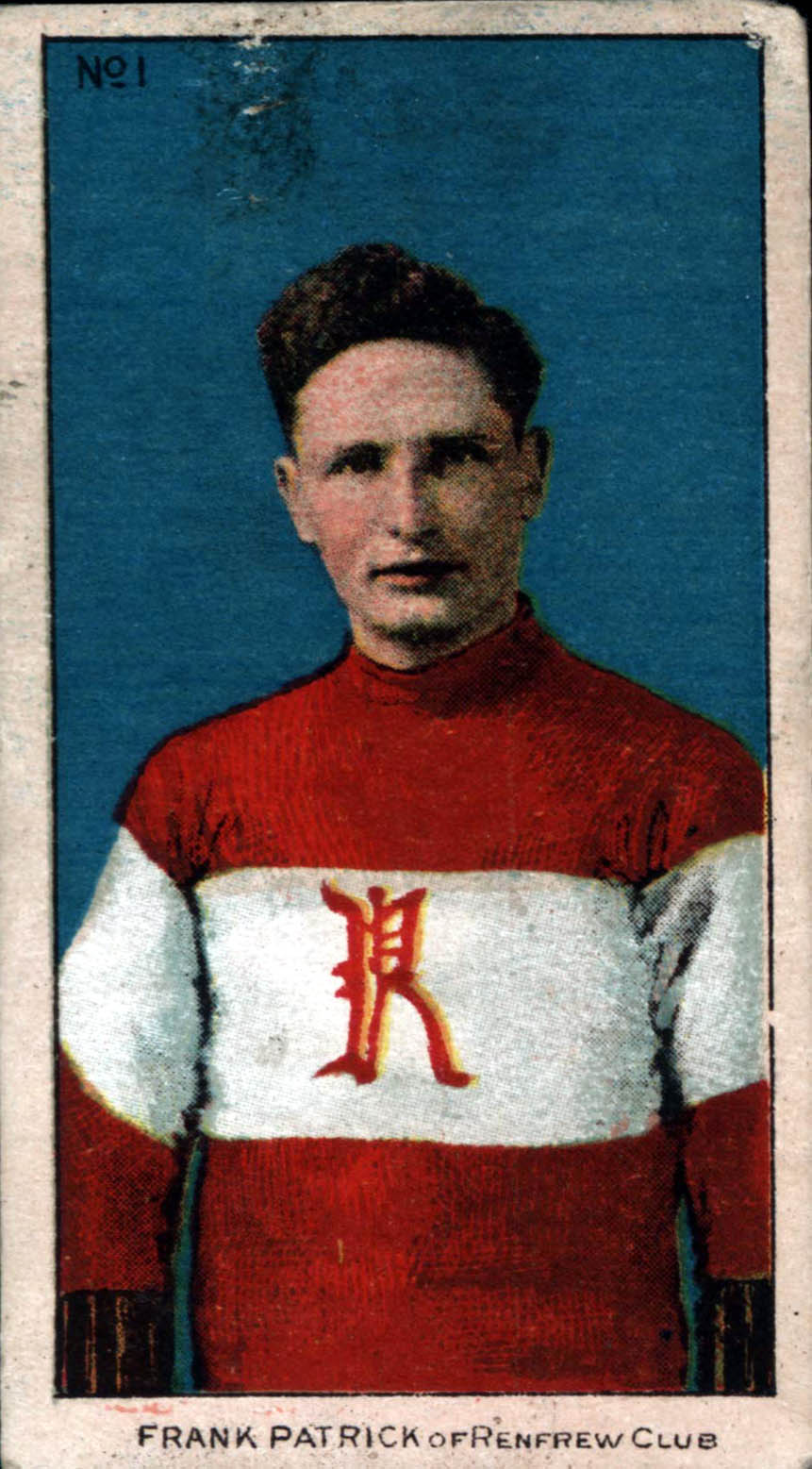 Frank Patrick These cards were placed in cigarette packages c. 1910-12 and were collected just as hockey & baseball cards from bubble gum packages are today. Inscription: Inscribed recto: u.l. "No. 1" in print, lower edge "FRANK PATRICK of Renfrew Club" in print; verso top to bottom " HOCKEY SERIES / FRANK PATRICK / Nelson, B.C. / Has played with / Westmount, / 1907 / Victoria of / Montreal, / 1908 / Nelson, B.C. / 1909 / Renfrew, 1910" in print.